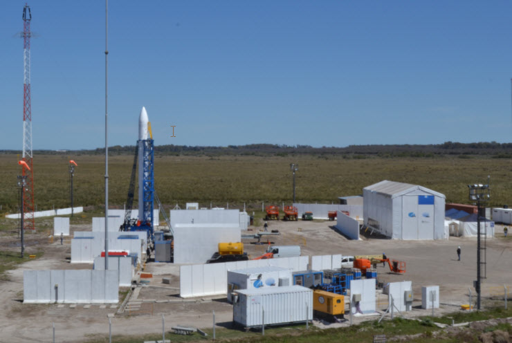 The prototype of the Tronador II launcher, the VEx-5A, at the launch pad of the Punta Indio Space Center.